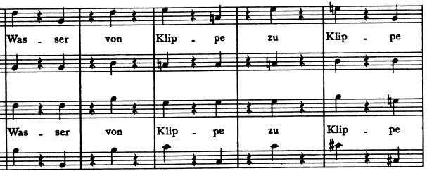 J. Brahms, Schicksalslied, Opus 54. Choral Excerpt 5.